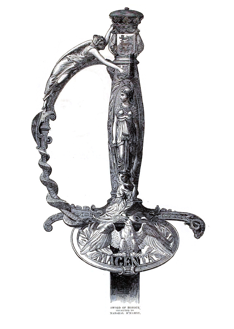 Sword of honour in Battle of Magenta awarded to Patrice Maurice de MacMahon